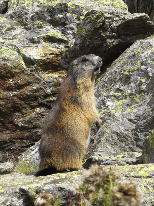 Sentinel Alpine Marmot. Photographed inside Stelvio National Park.